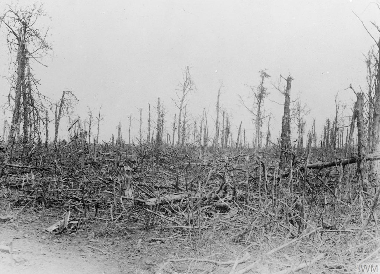 The Battle of the Somme, July-november 1916 View in Mametz Wood, 10th August 1916.